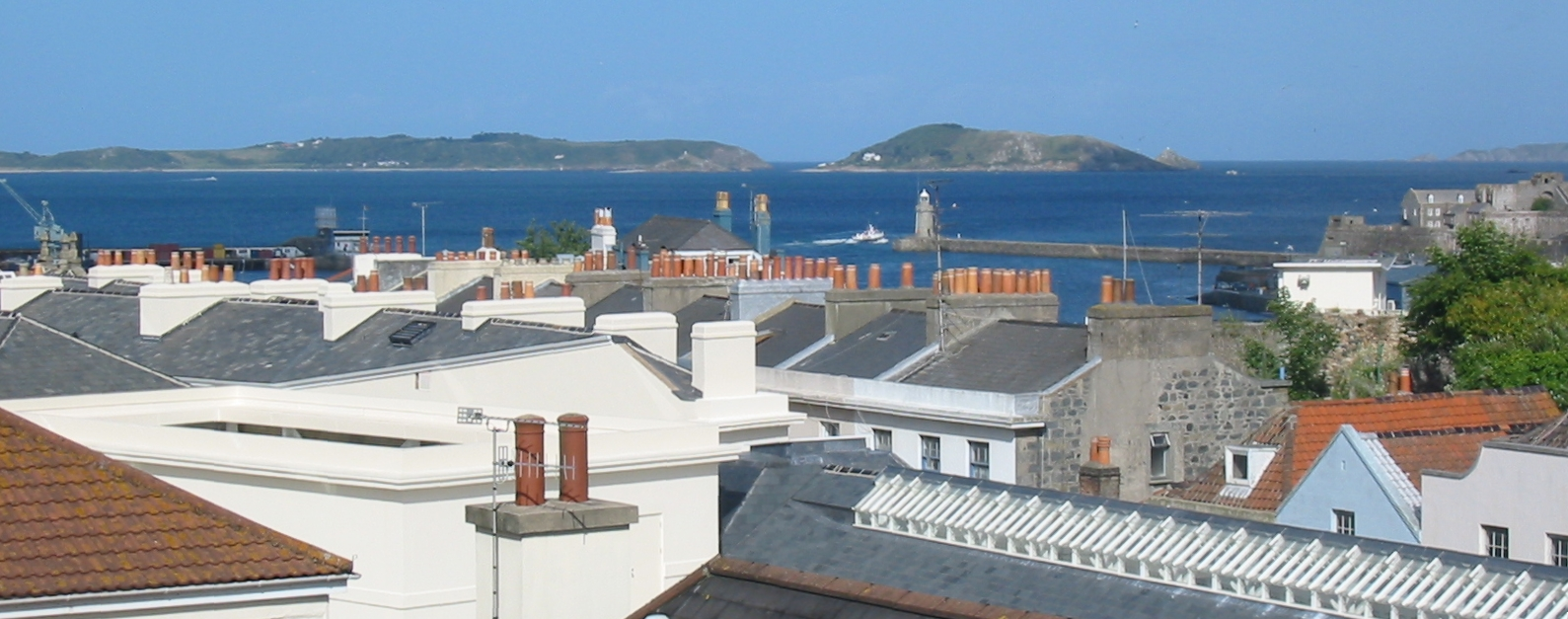 View towards Herm and Jethou over roofs of St Peter Port (including roof of market)